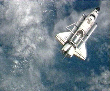 Backdropped against white clouds, Space Shuttle Endeavour is seen from the International Space Station shortly after undocking